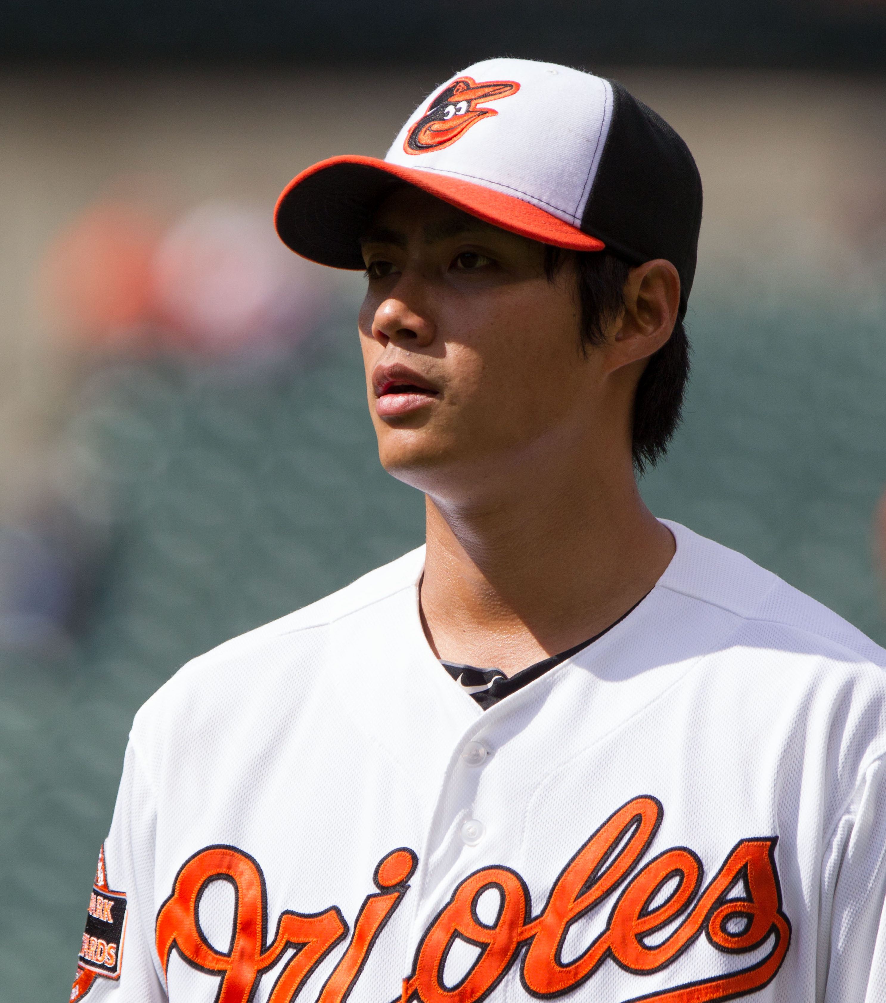 Wei-Yin Chen